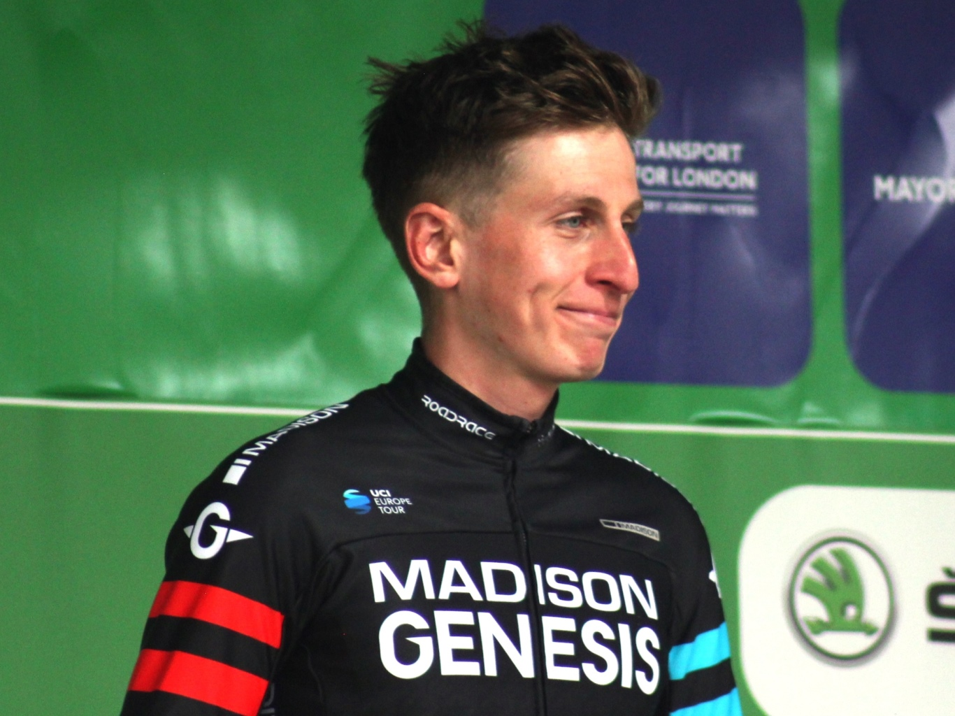 Matt Holmes of the Madison Genesis team on the podium to receive the the combativity prize for stage eight of the 2018 Tour of Britain in London.